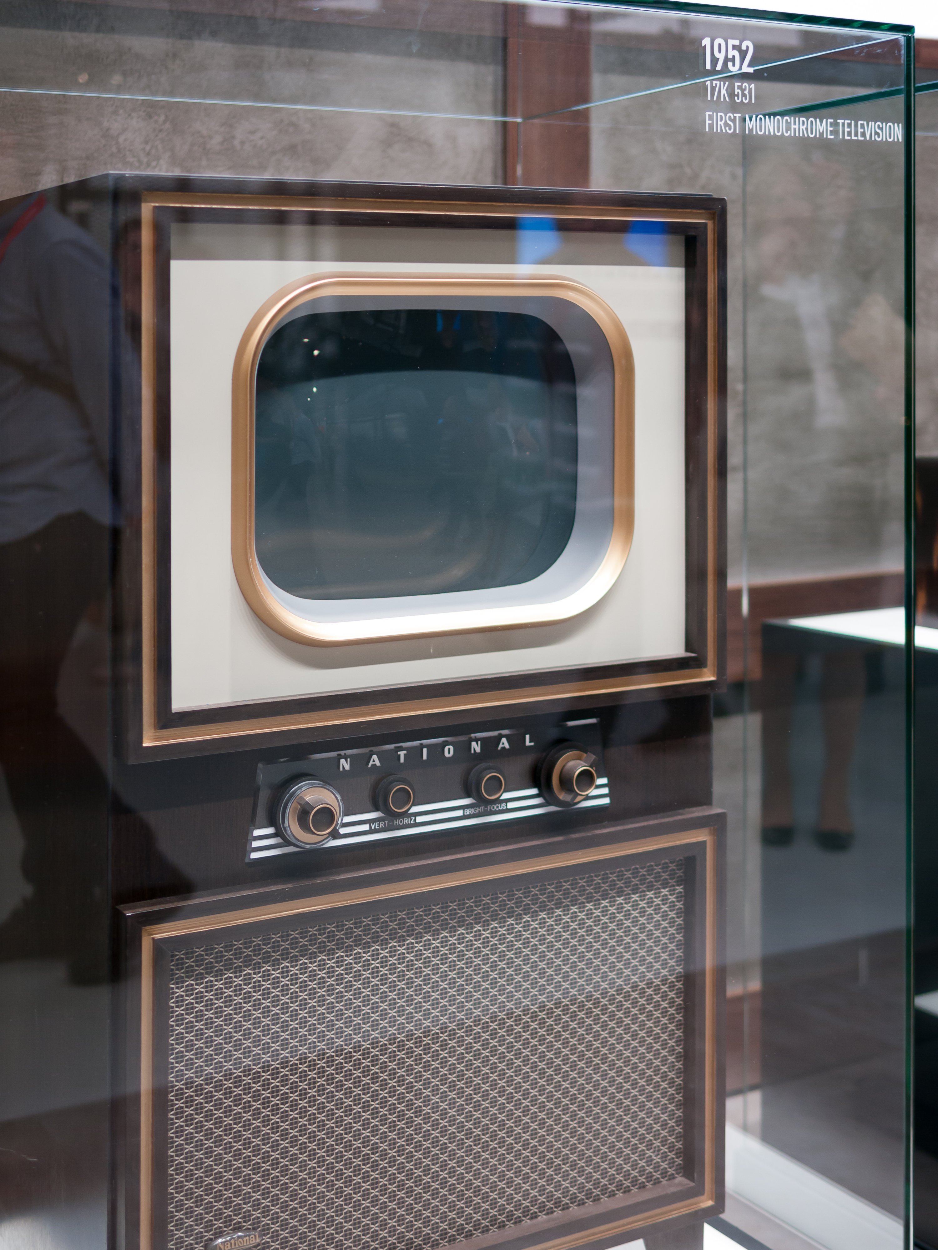 Panasonic, Internationale Funkausstellung 2018, Berlin